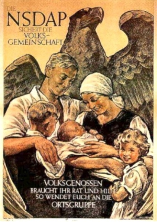 Nazi Germany NSDAP poster